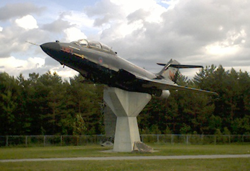 Monument Of "067 - The Electric Voodoo", a CF-101 Voodoo located on a monument at the entrance of CFB North Bay located in North Bay, Canada. Picture taken summer of 2005.